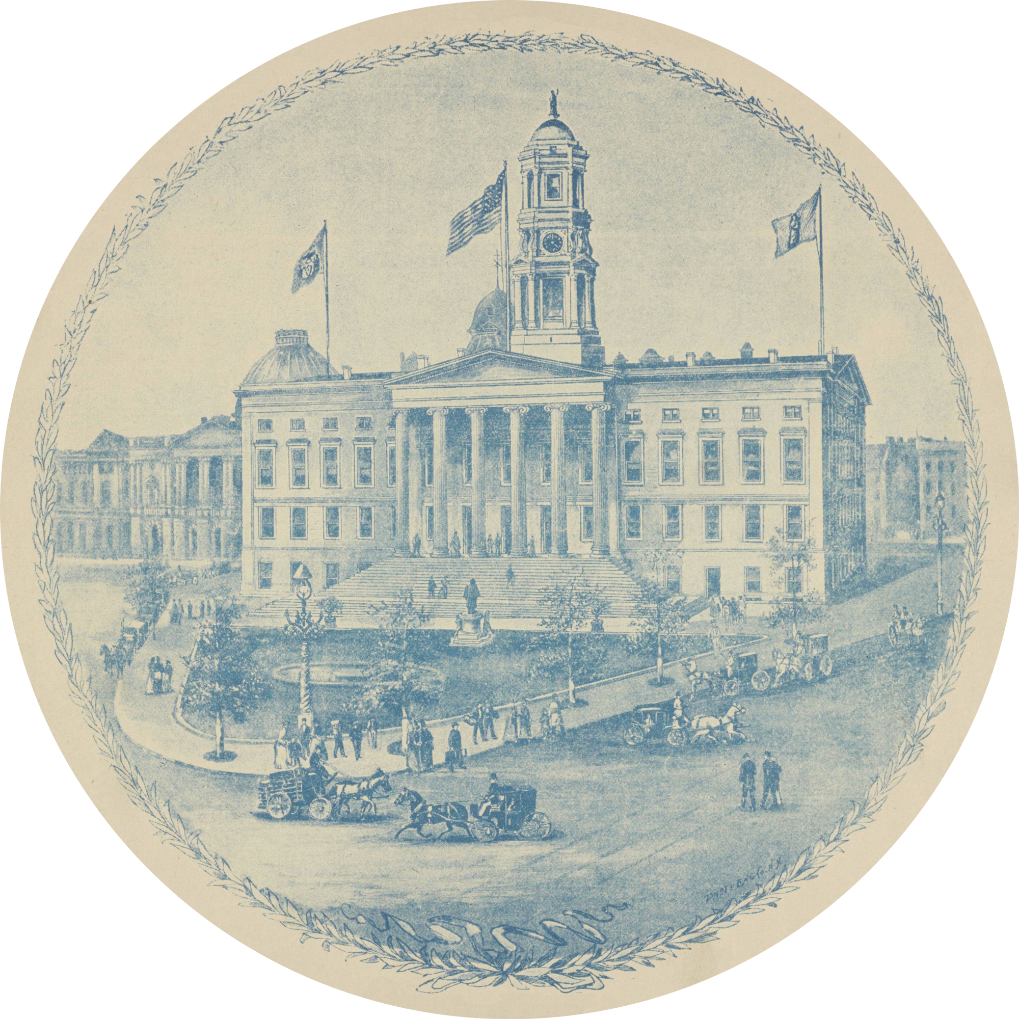 A section of the cover of the sheet music for the song "Up With the Flag! (of Brooklyn)", published in 1895 to rally opposition to the planned consolidation of the City of New York.